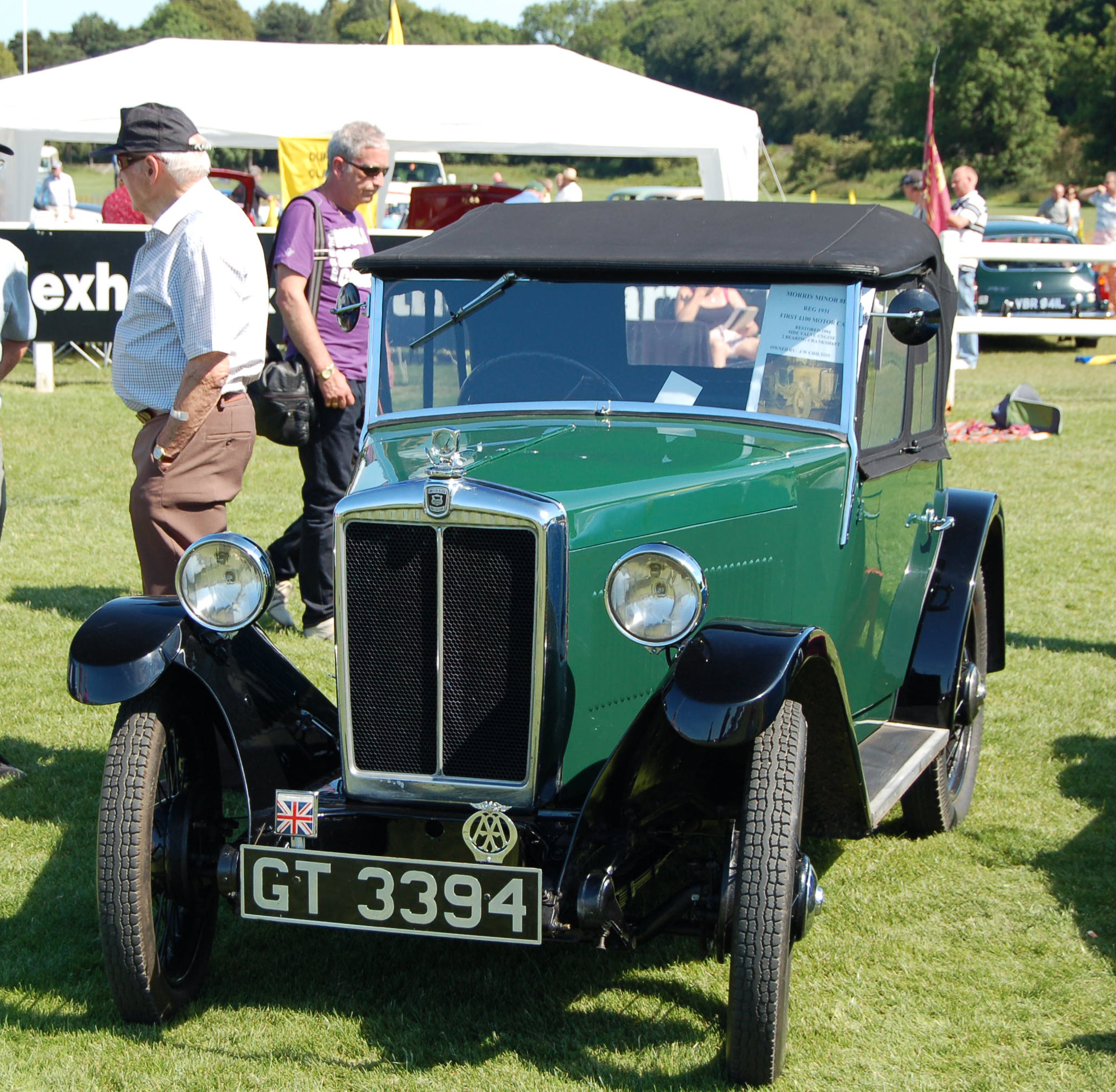 1931 Morris Minor 2-door 2-seater tourer DVLA first registered 2 December 1931 (it is a 1932 model) Corbridge Classic car show 3 July 2011 chassis SV10041 engine V10711A Source of information